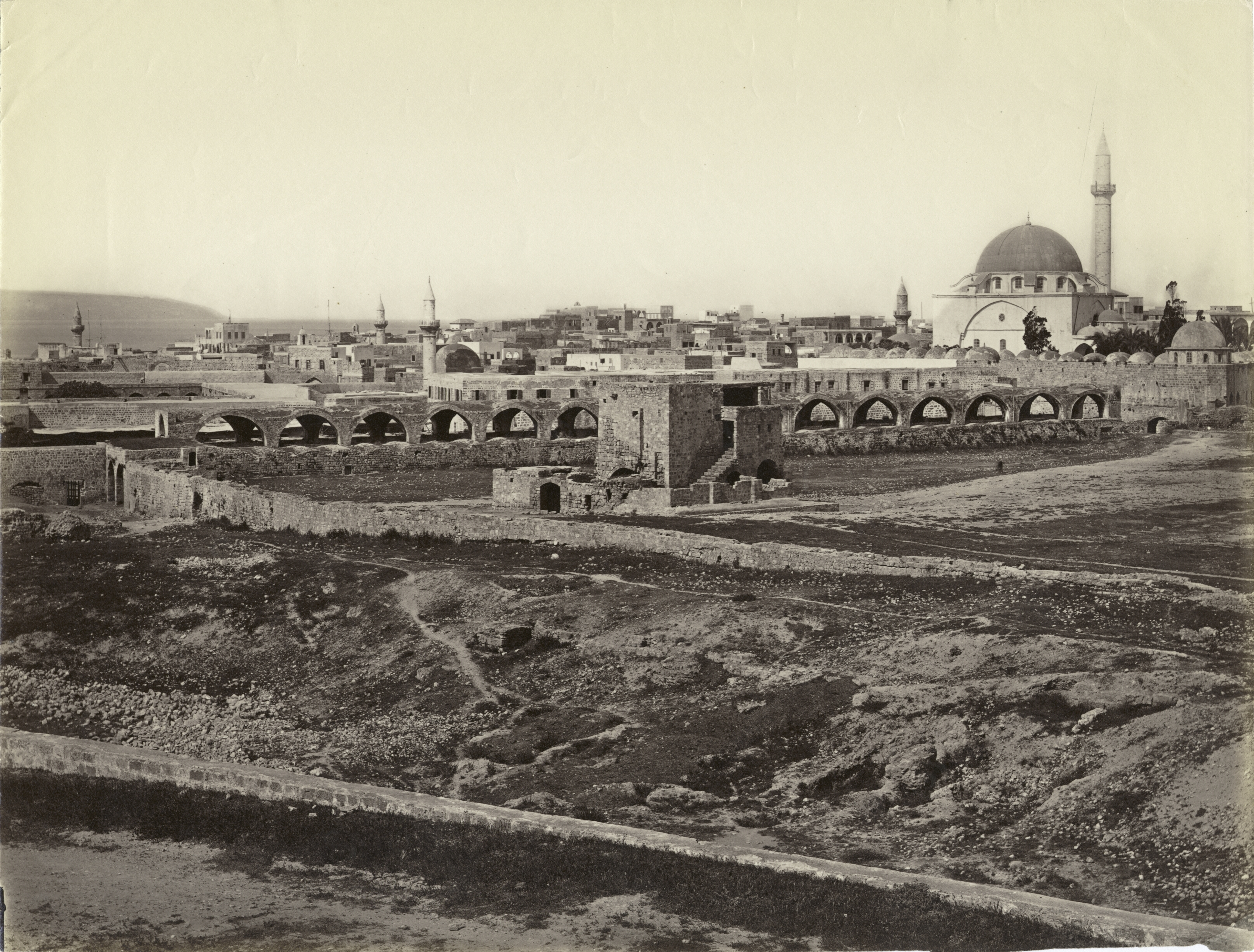 Akko 4th quarter of 19th cen. Image Title: Acre, Palestine